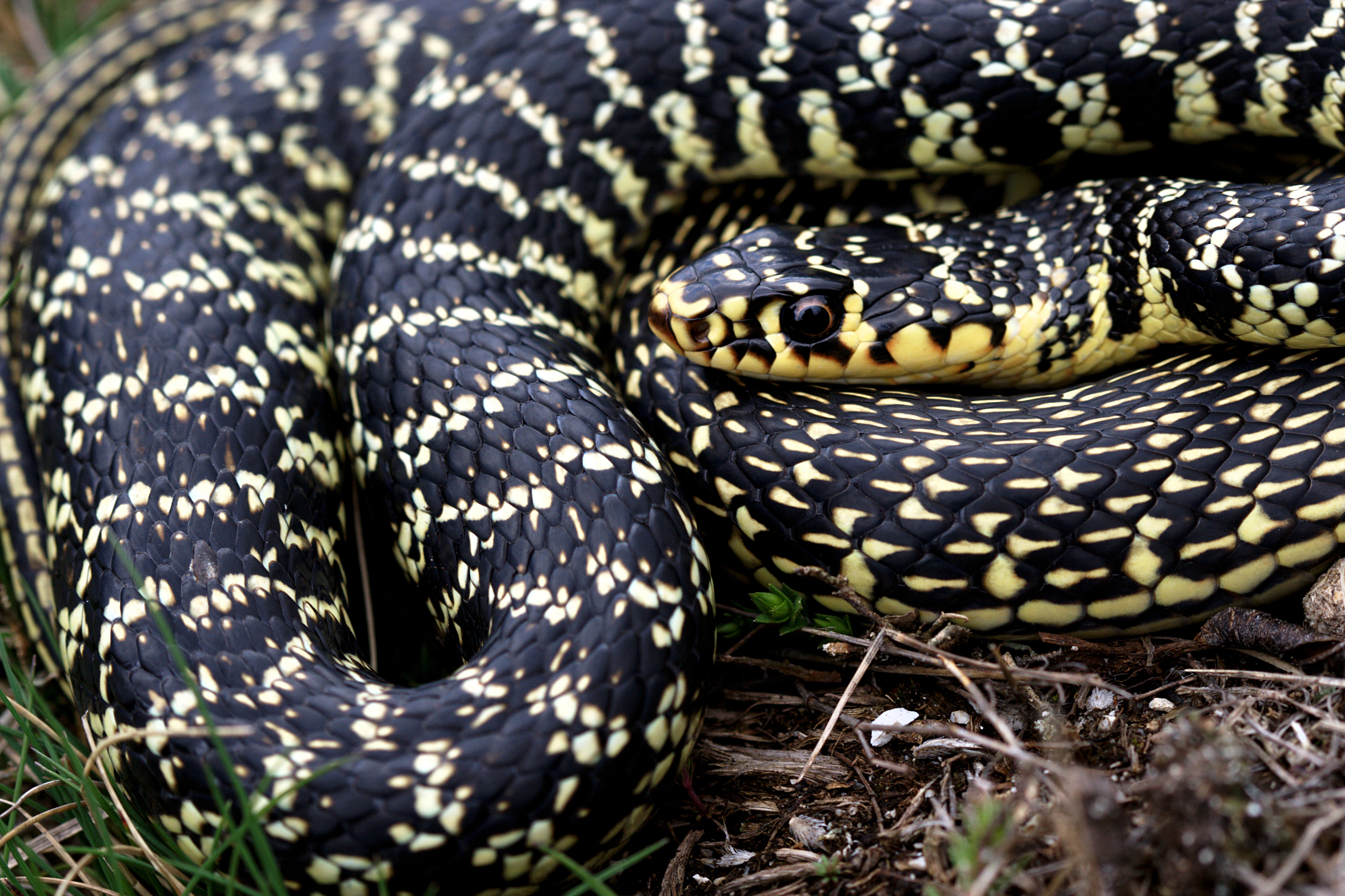 Green Whip Snake, Hierophis viridiflavus, seen in central Italy